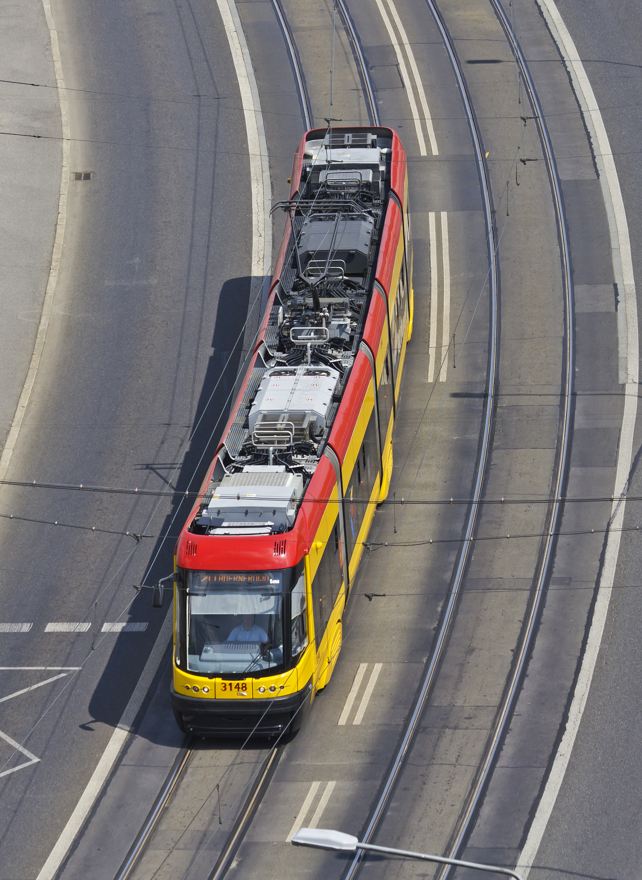 View from the St. Anne Church tower at Castle Square in the Old Town (Stare Miasto) in Warsaw (Poland). Tram on the Vistula bridge.